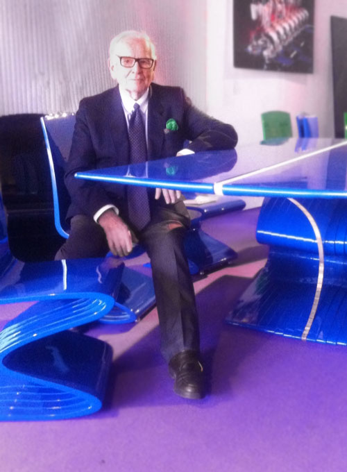 Pierre Cardin Sculptures Utilitaires Cobra Table and Chair